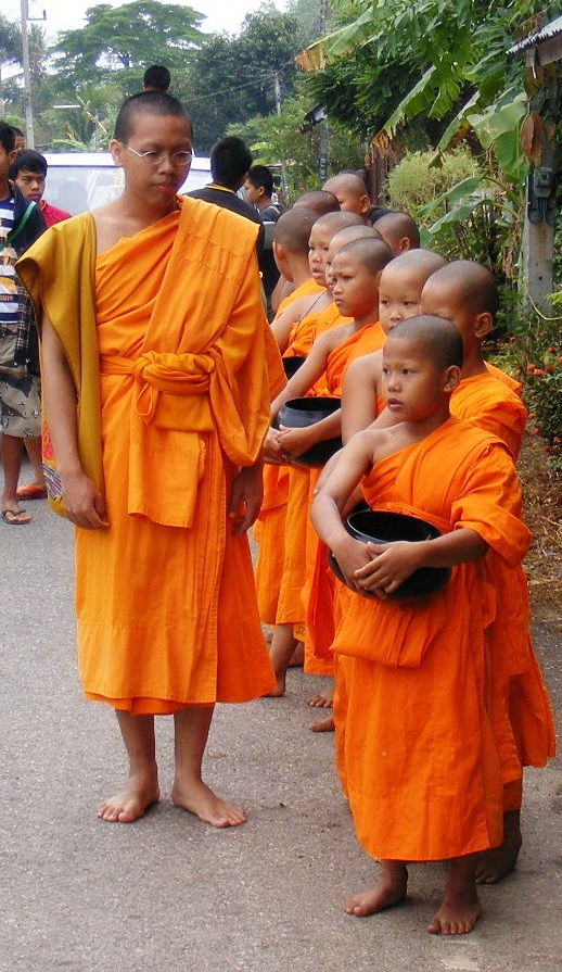 Buddhist is puttinging food into the bowl of the Buddhist monk in Ban WangYang, Pha Chuk subdistrict, Mueang Uttaradit, Uttaradit Province, Thailand.